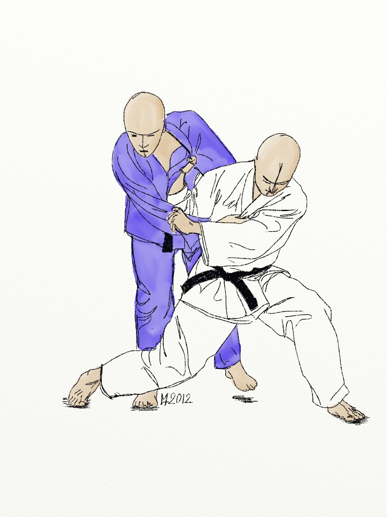 Illustration of the judo throw known as tai-otoshi or body-drop-throw where you turn in front of the opponent, and throw the opponent by blocking his shin with your lower leg.